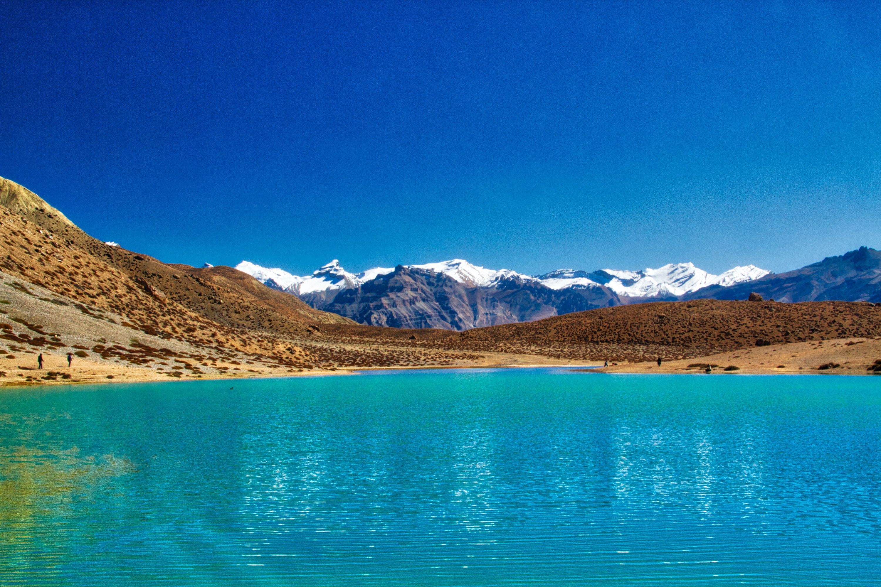 View of Dhaankar Lake in Spiti District, Himachal Pradesh, India. It is a high altitude lake situated at 4,270 meters altitude.